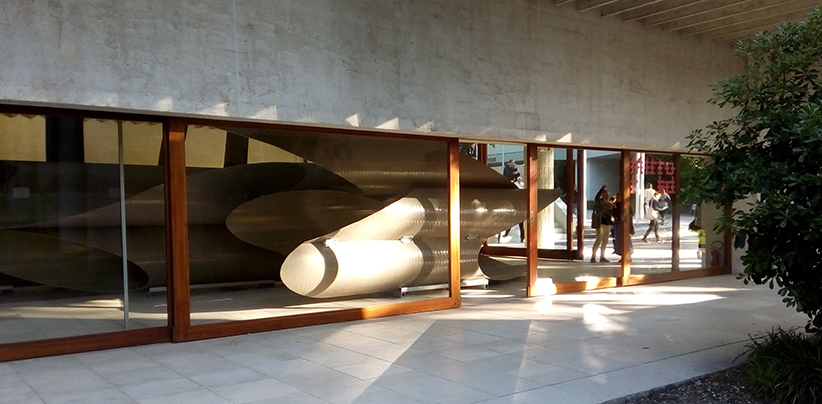 Siri Aurdal ONDA VOLANTE 2017 Venice Biennale. The Nordic Pavillion by architect Sverre Fehn. Photo: Marco Pannaggi.